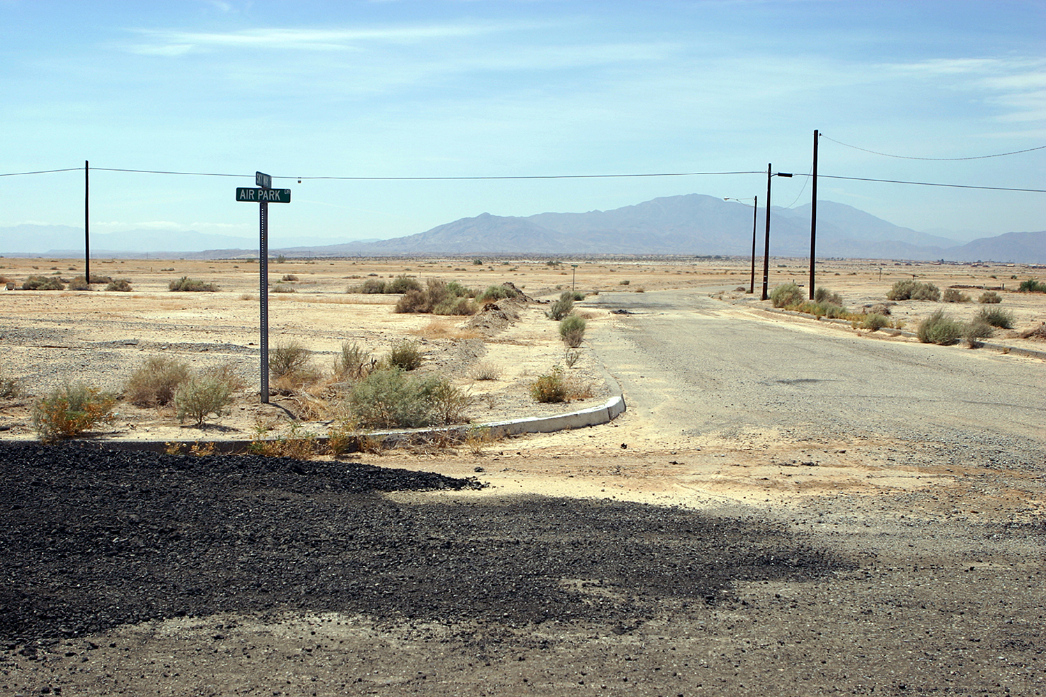 Road leading to Salton City's airport. This is an example of the road system that was laid out for the city but was never utilized.